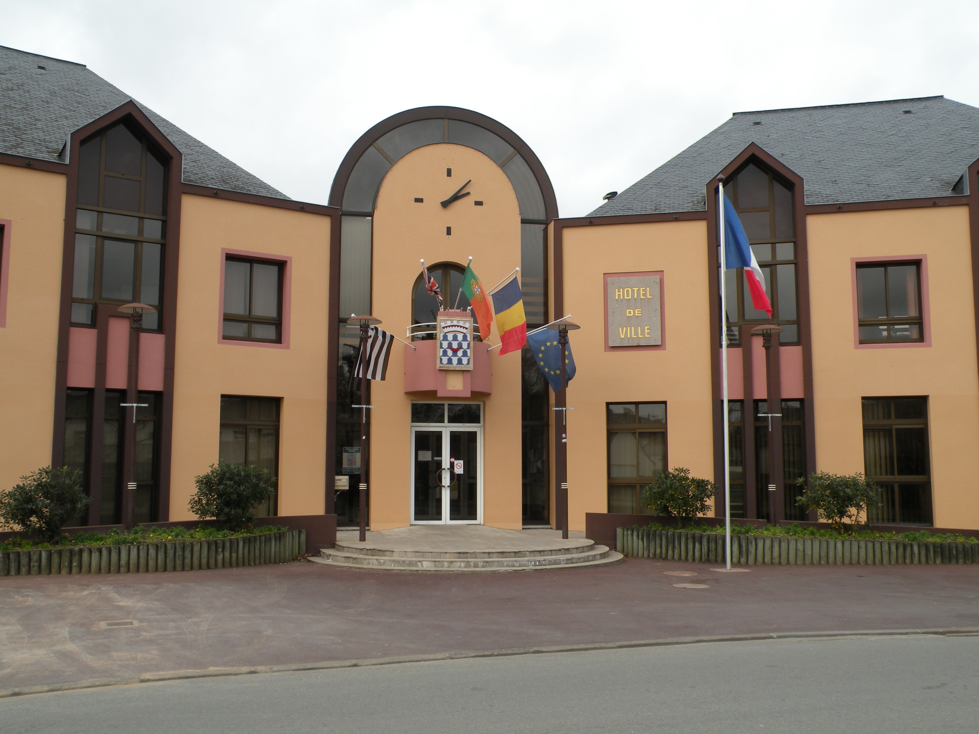 Town hall of Blain